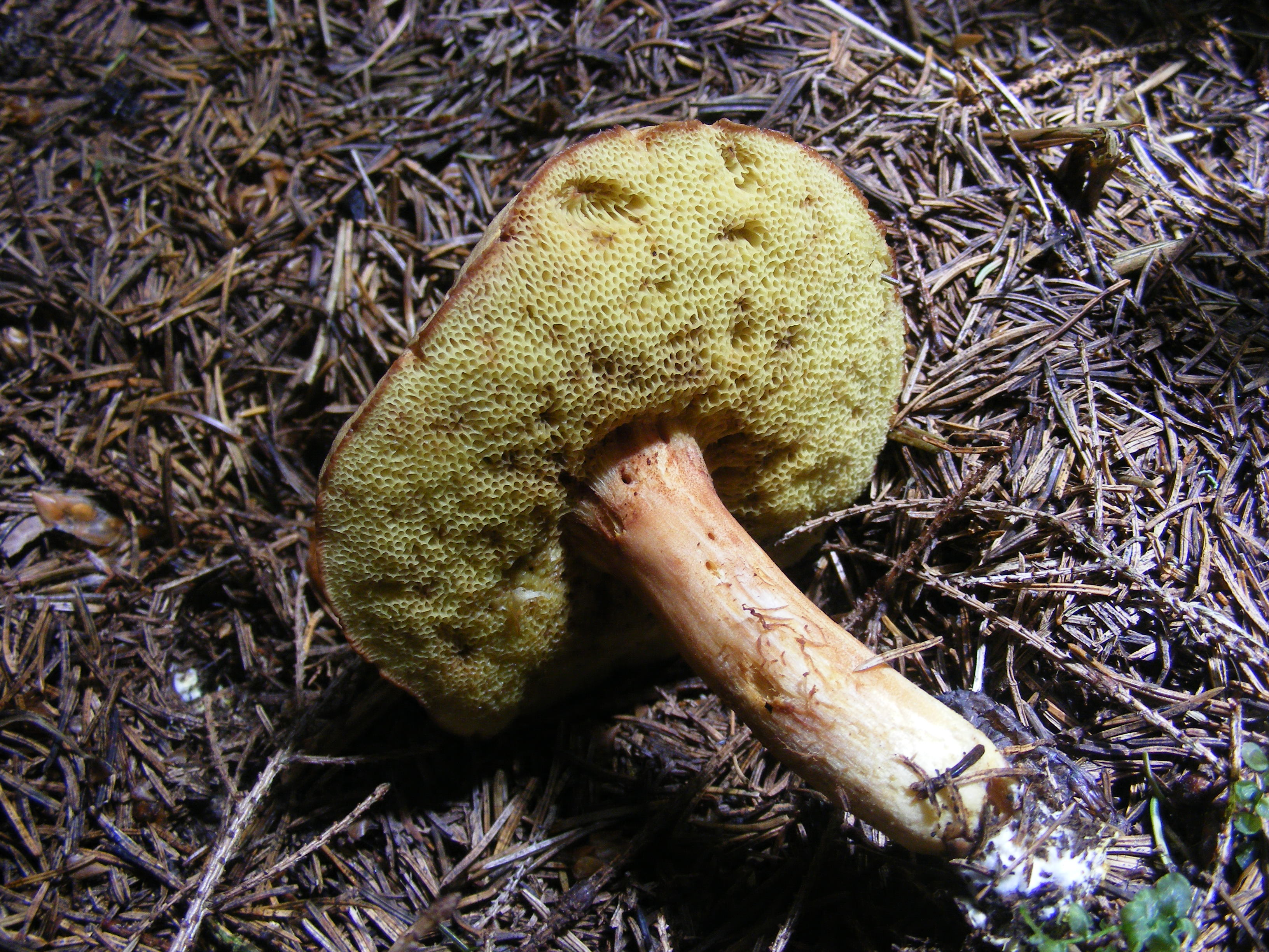 Xerocomus subtomentosus